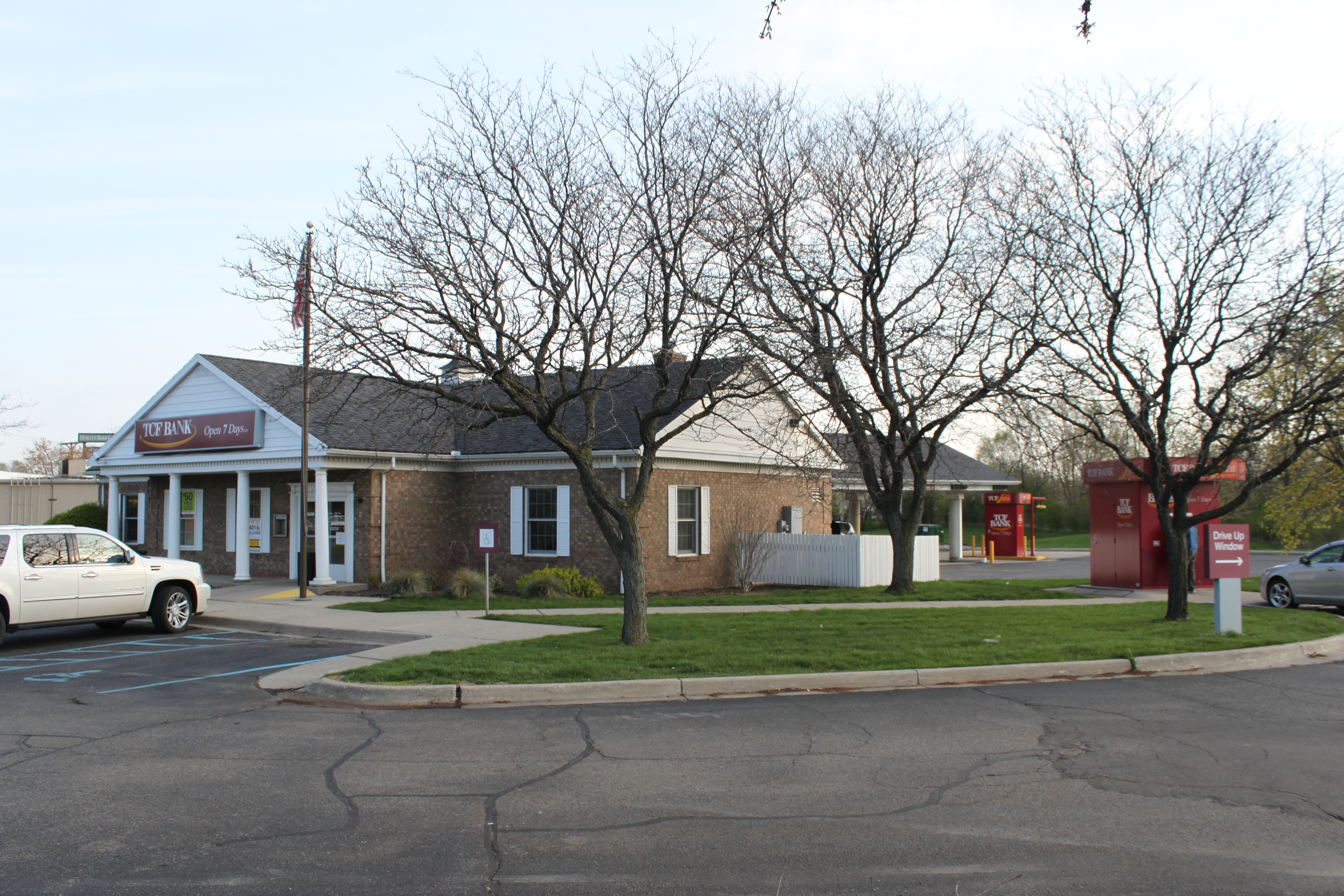 TCF Bank Ypsilanti Michigan branch, 2170 Packard Rd., 48197